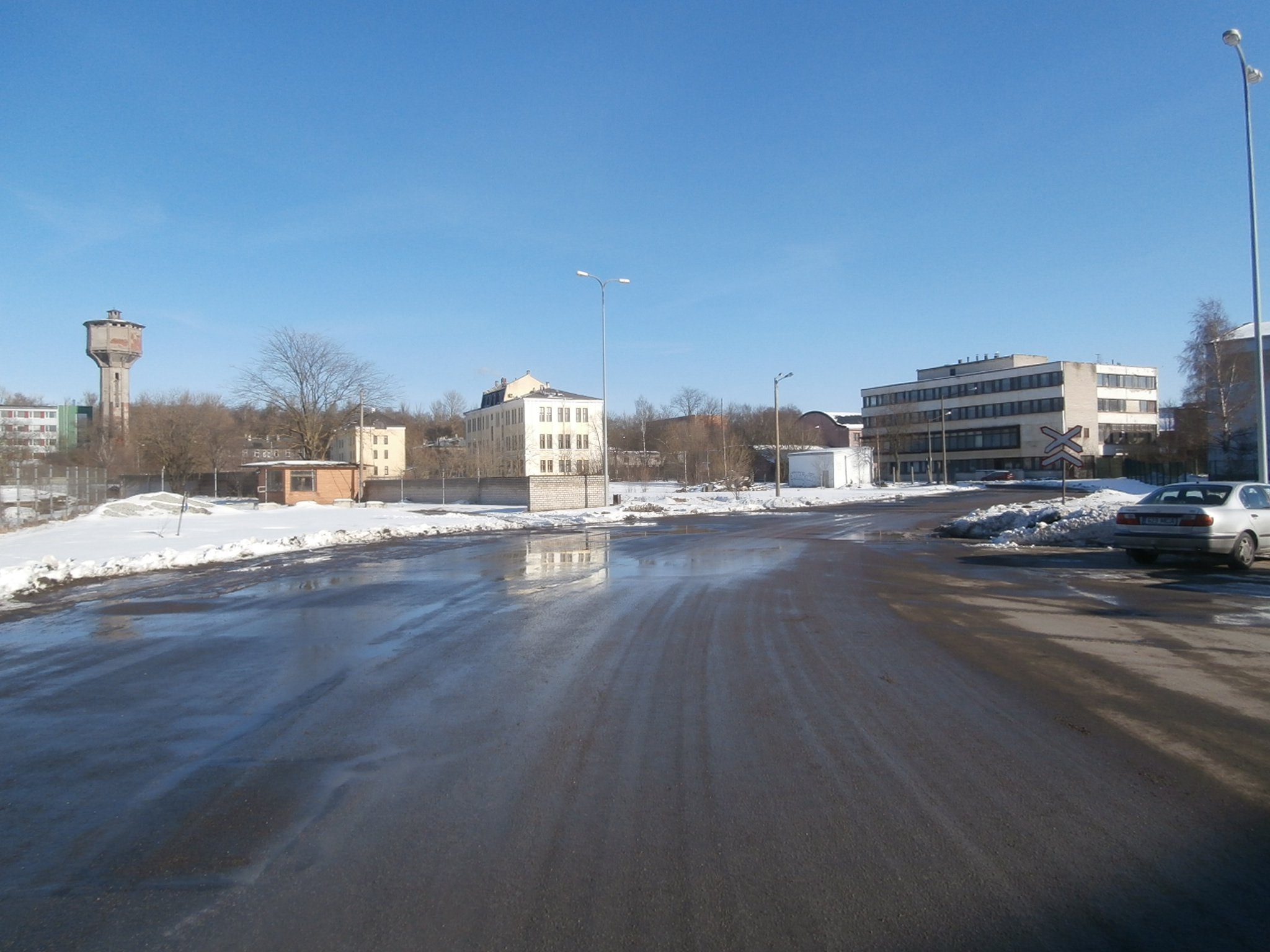 Marati tn in Kopli Tallinn 1 March 2016 (Bekker's water tower on the left)